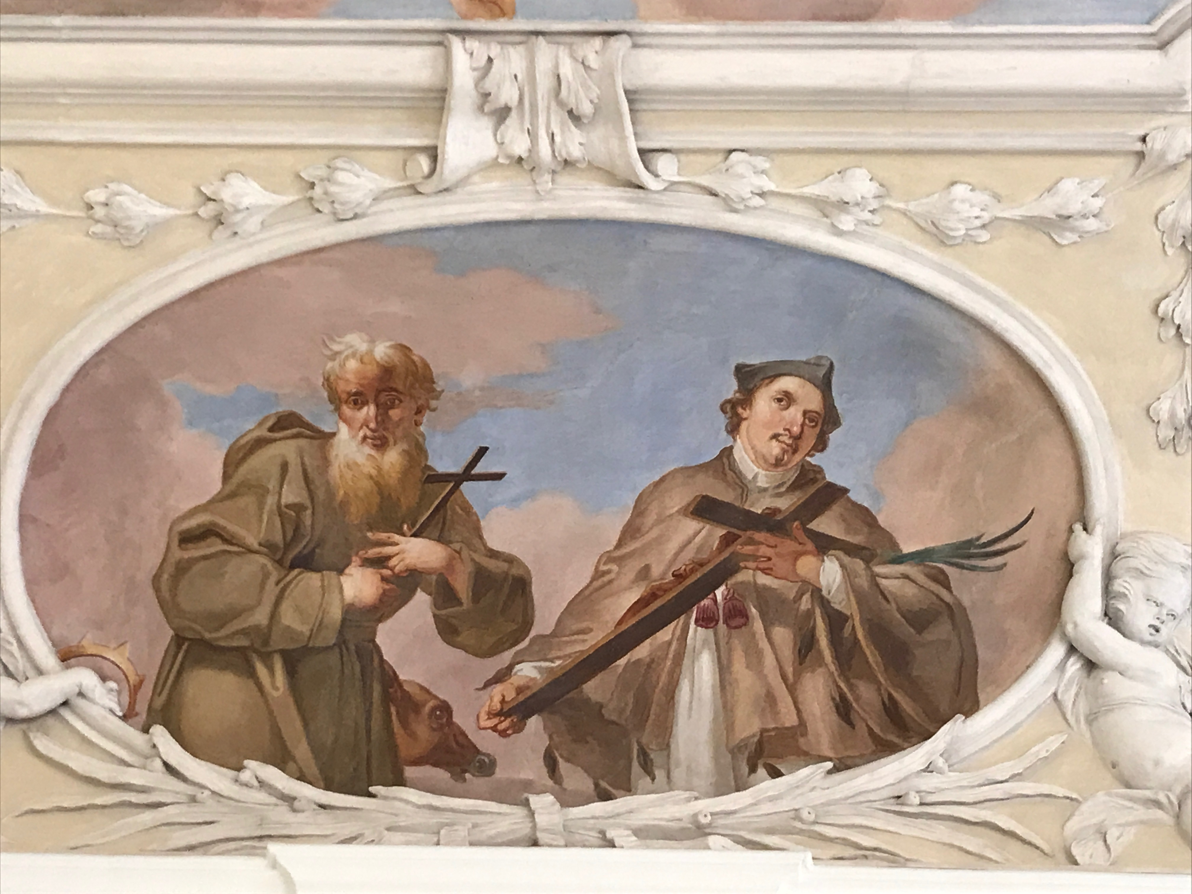 Fresco on the ceiling of st. Anne chapel in Chateau Herálec